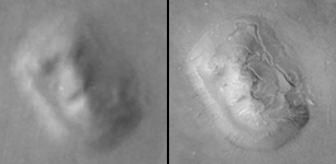 Face of Mars made by Viking Orbiter in 1976 (left) and by Mars Global Surveyor in 2001.